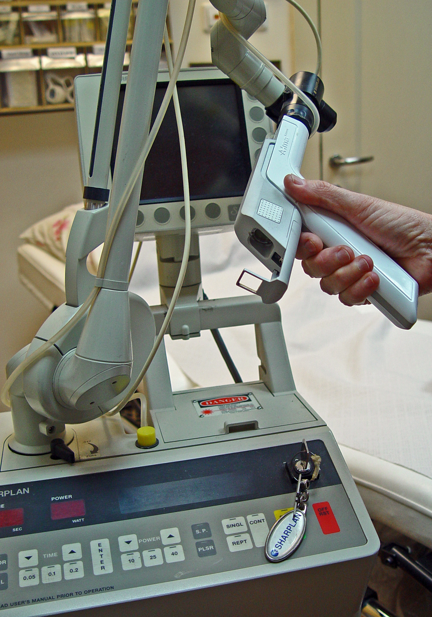 Sharplan 40C 40 Watt CO2 Laser for ENT, GYN, Dermatology, Oral, and Podiatry applications.